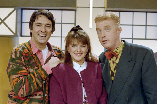 Wie ben ik?'s panel in 1990